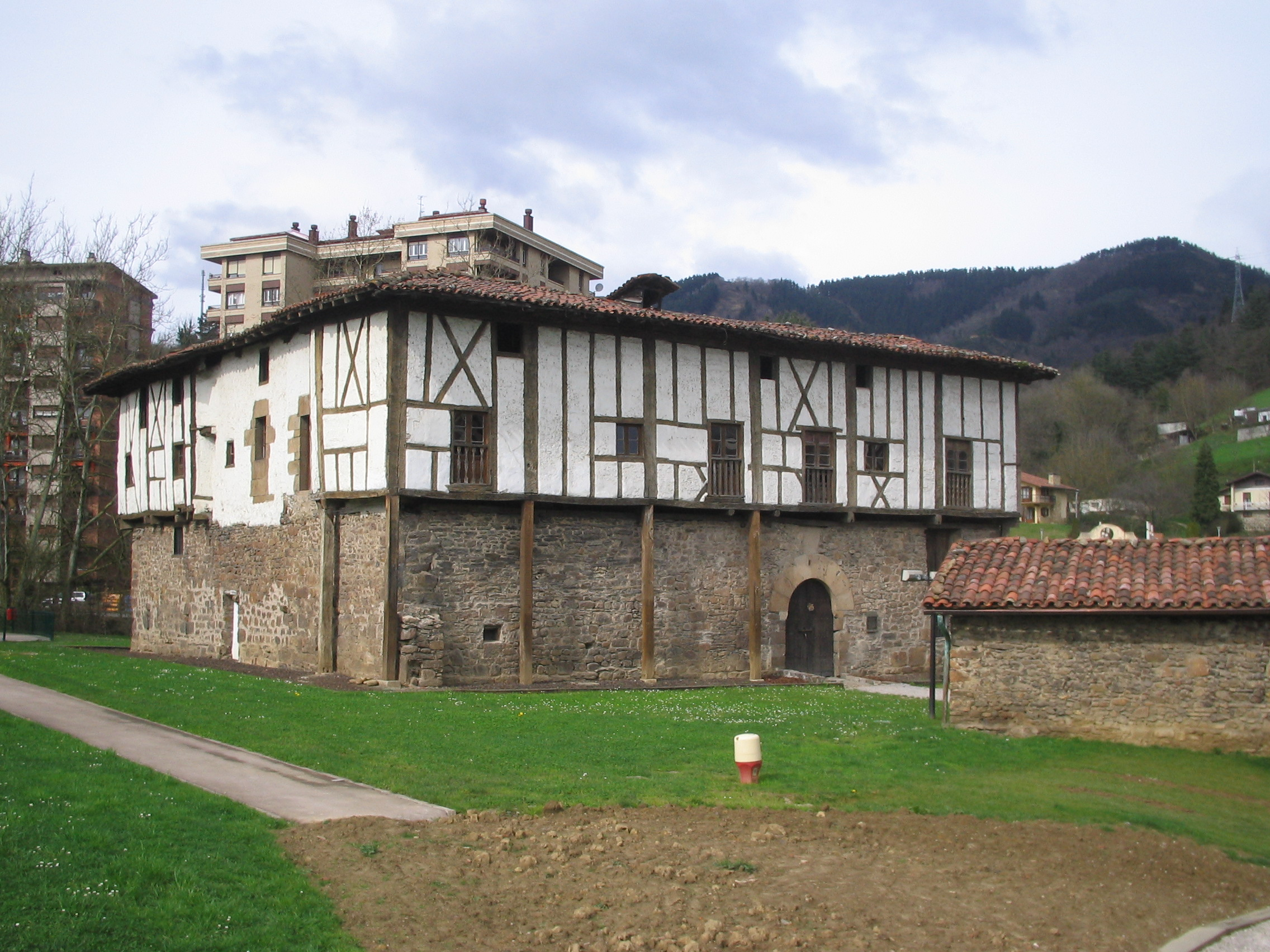 Igartza palace in Beasain, Basque Country